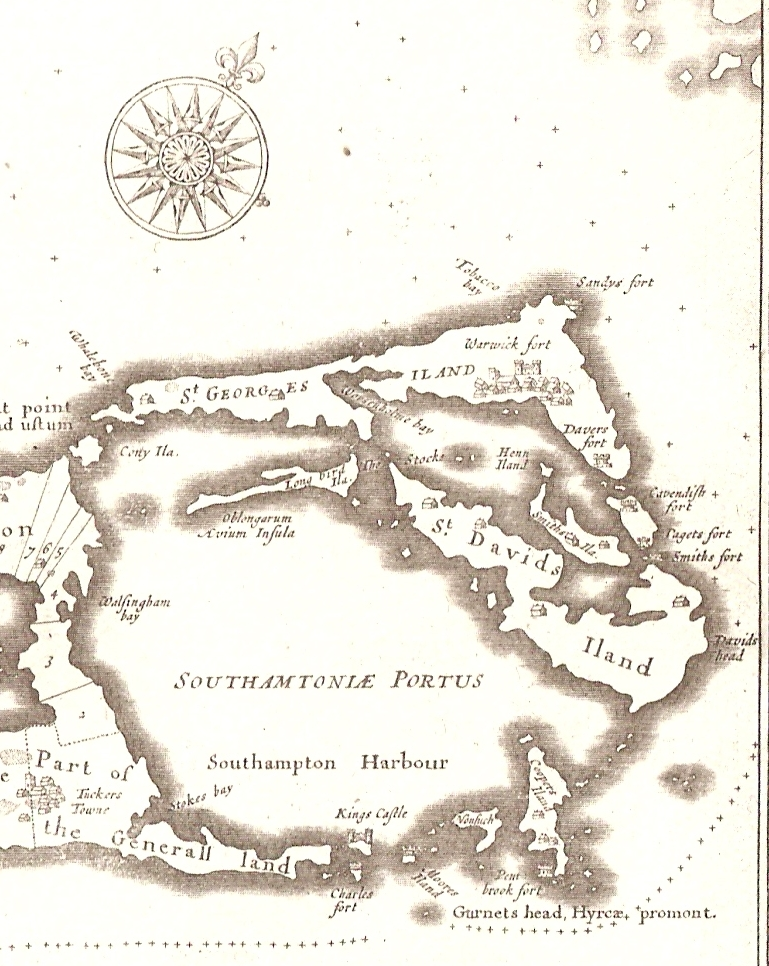 Detail from a map of the Somers Isles, by John Speed, 1676. The area shown is St. George's Parish, originally the Common, General, or King's land, which means it was not part of the area exploited by the Somers Isles Company. The Parish included the South-East part of the Main Island (or Bermuda, or Great Bermuda), as well as St. George's and St. David's Islands, the small islands (Castle Islands) at the south of Castle Harbour (known as Southampton Harbour, until renamed due to the presence of the fortifications on those islets), and various other neighbouring islands. The shape of this area would change radically when the US Army began construction of an air base, Kindley Field, in 1941.